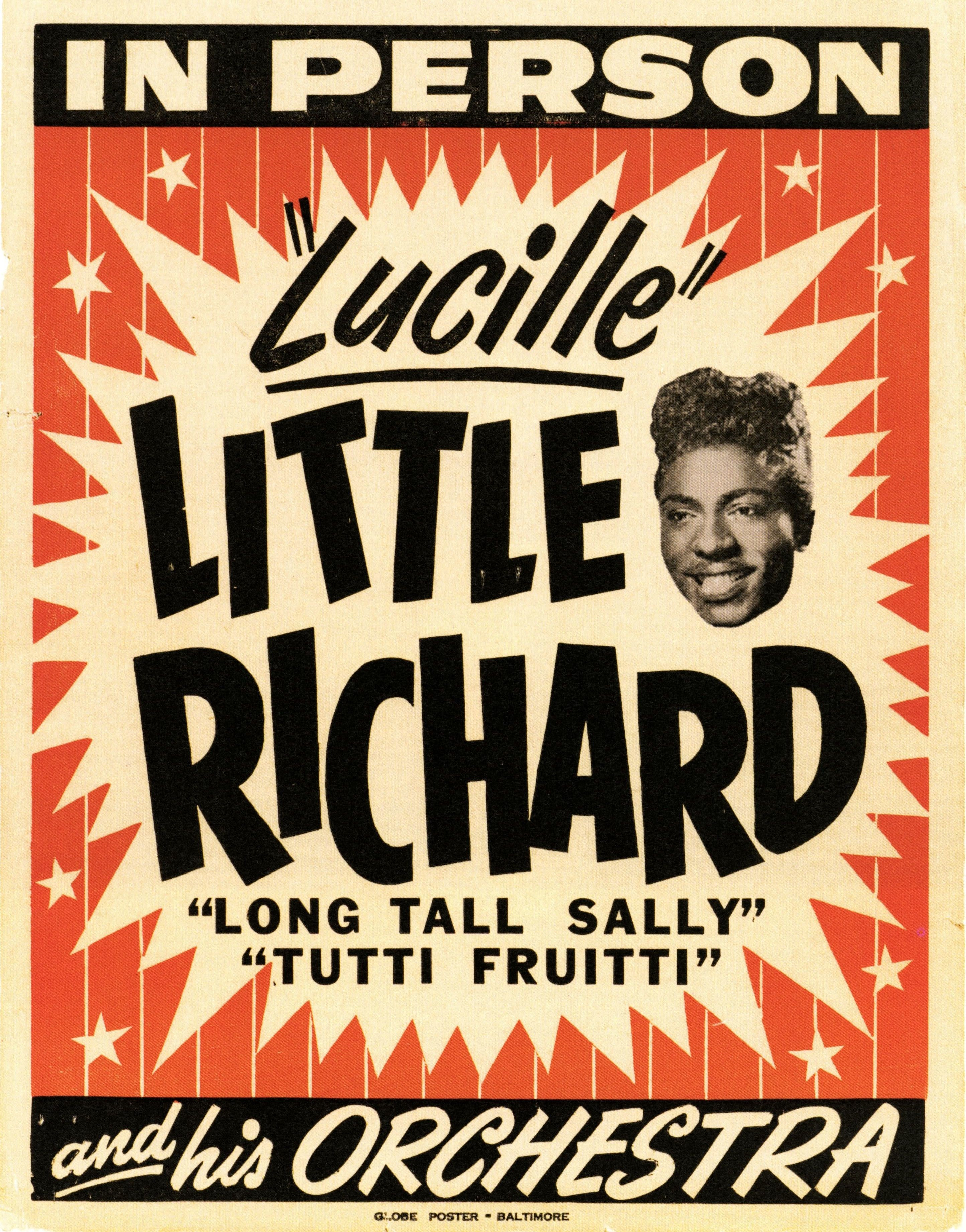 In Person 'Lucille' Little Richard and his Orchestra. Original vintage band poster, 40 x 30 cm